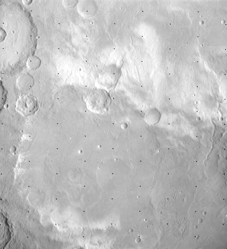 Arago crater on Mars. Viking Orbiter 1 image from camera A (371S11). Minus Blue filter was used for this image. Resolution is about 219 m/pixel. North is to upper right. Emission Angle: 14.3 Incidence Angle: 57.3 Latitude: 10.7 Longitude: 30.2 Phase Angle: 67.0